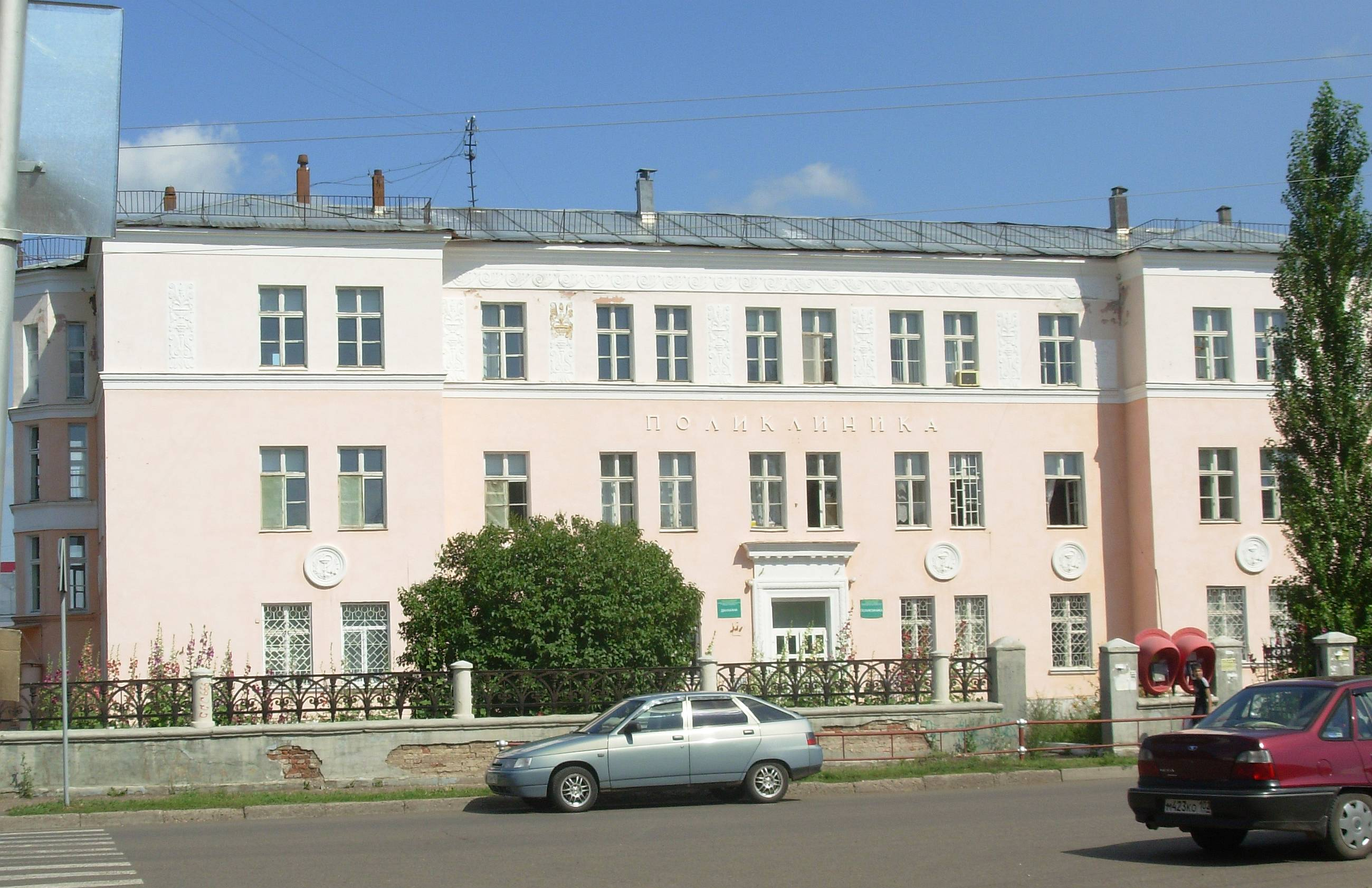 Shapaeva street Salavat Russia